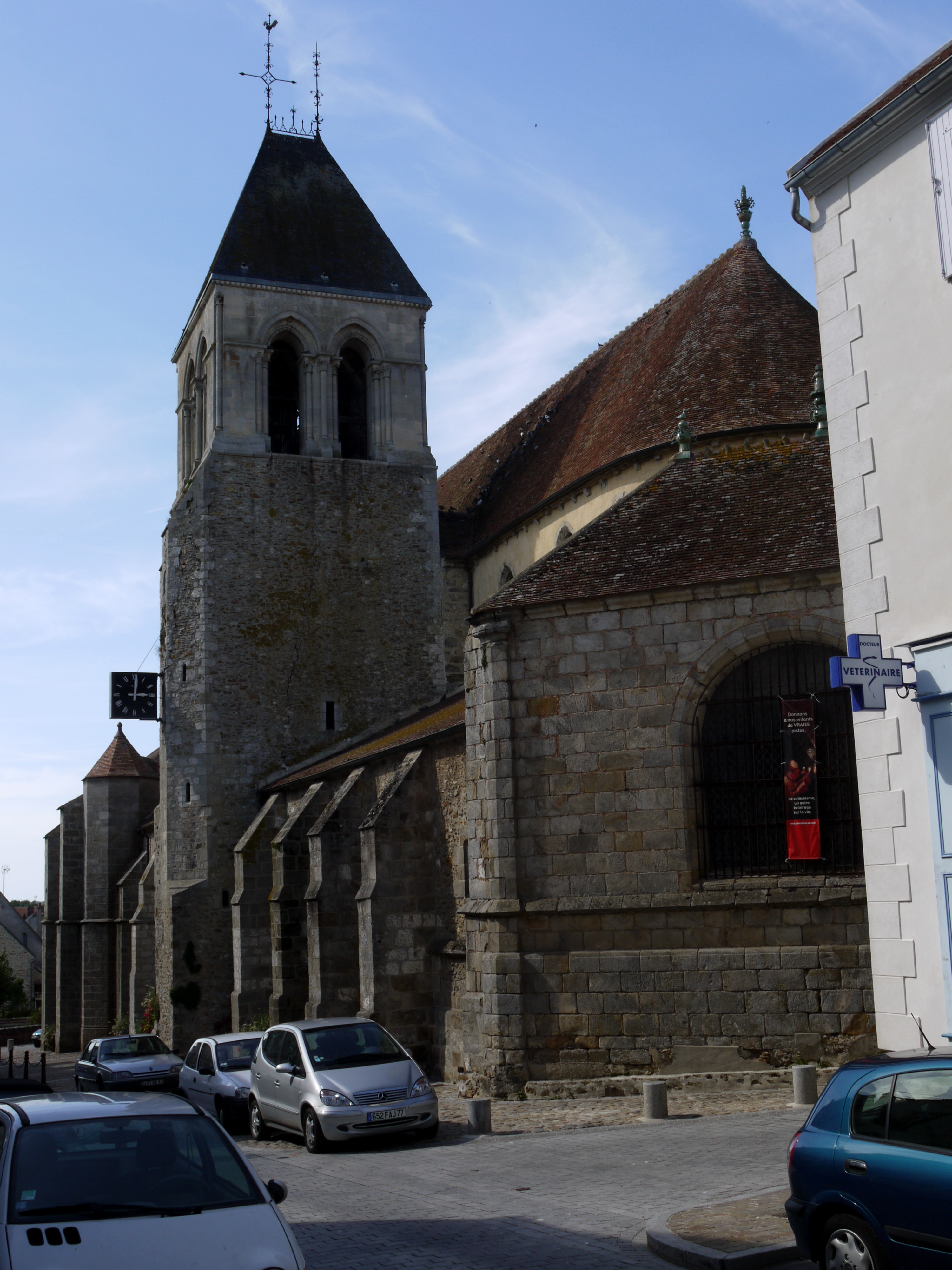 Church of Rozay_en_Brie, Seine et Marne, Ile de France